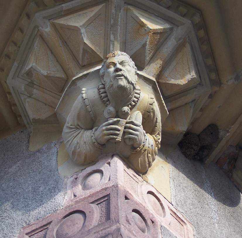 Another sculpture at the marketplace front of the castle in Marksuhl.